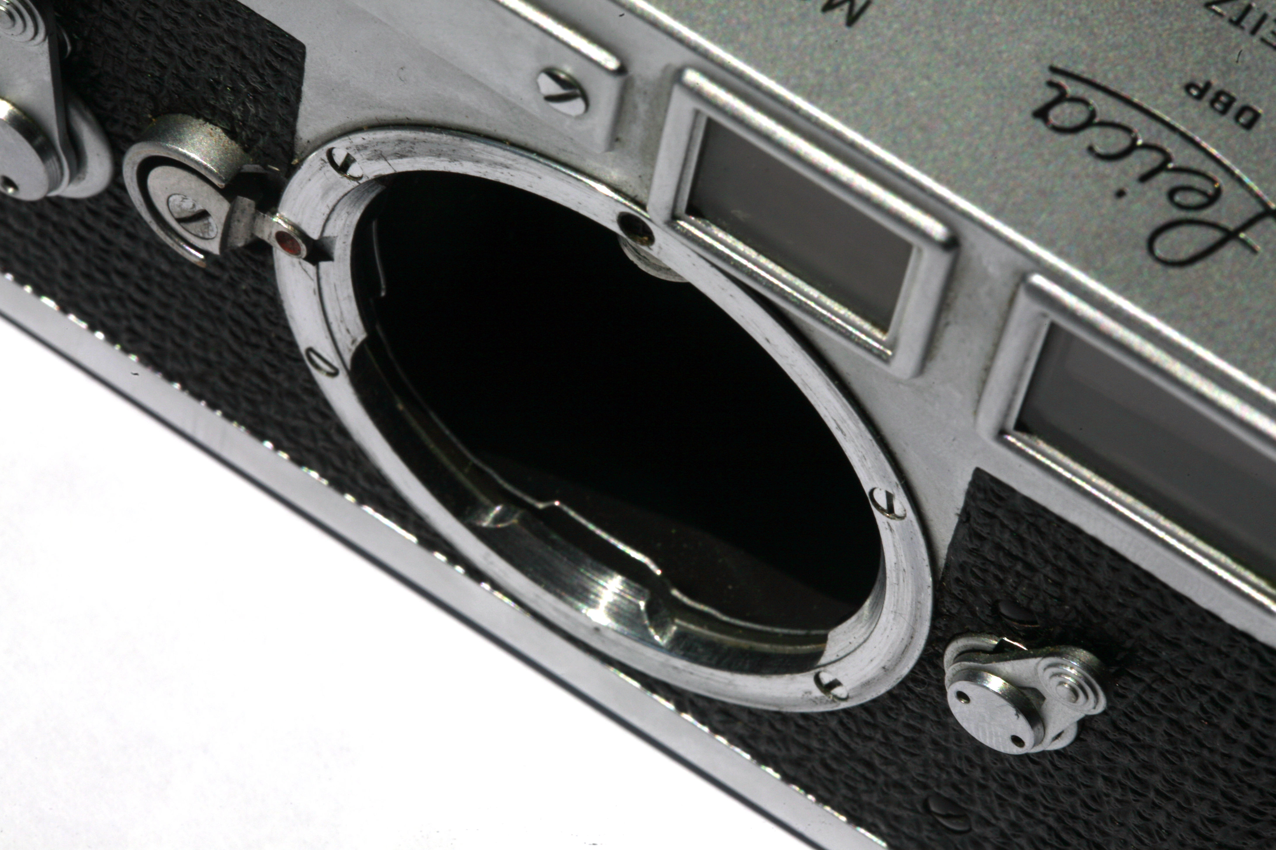 Leica M3